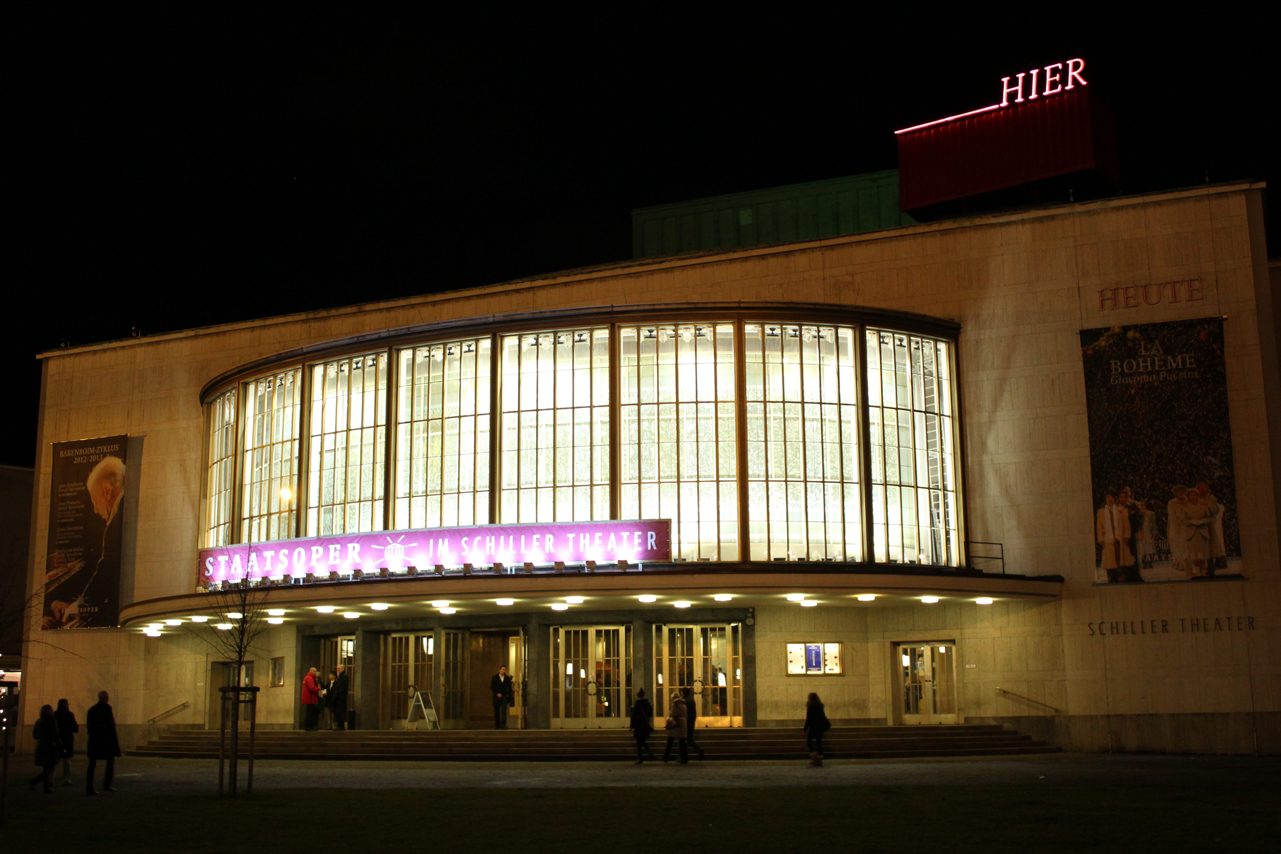 Staatsoper Unter den Linden im Schiller Theater 2012 winter